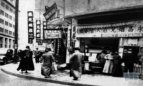 An image of a qianzhuang (or "Money Shop") in the city of Shanghai taken sometime before the 1930's.